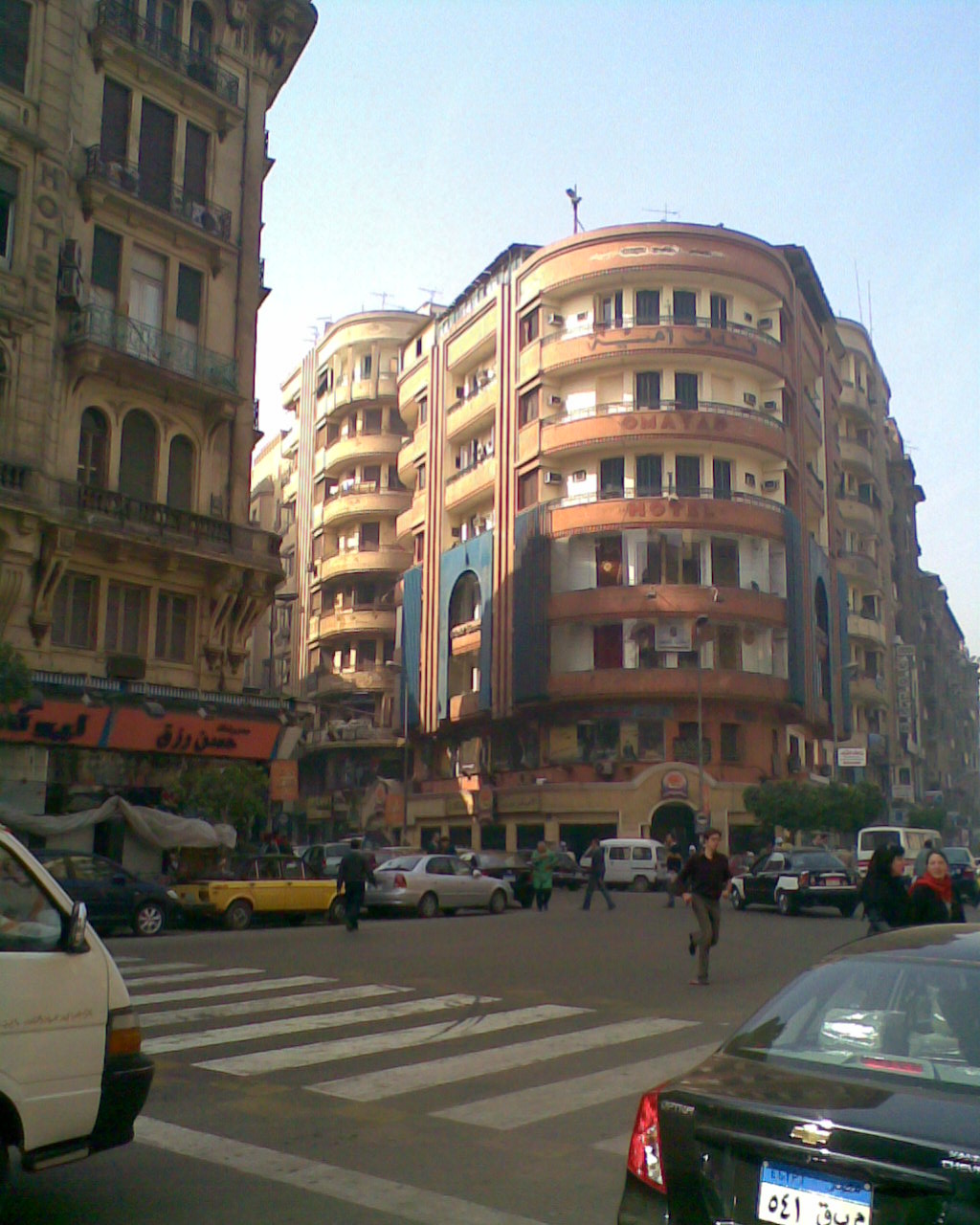 Orabi square, 26 July (Fouad) Street, Downtown, Cairo.